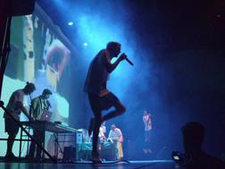 Den Svenska Björnstammen Live